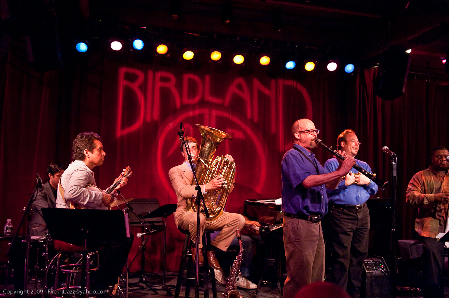 Louis Armstrong Centennial Band at Birdland, New York City